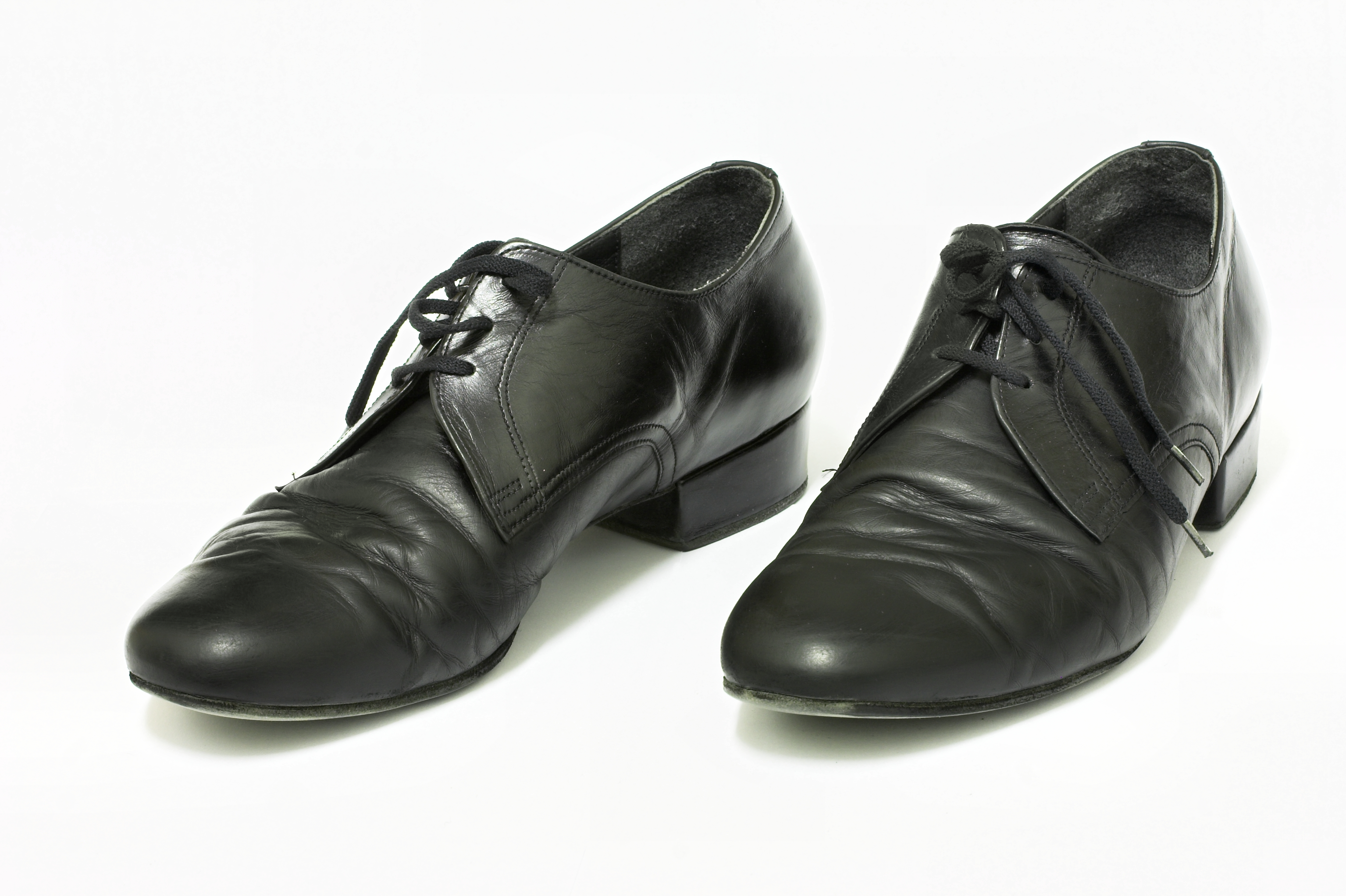 Mens' ballroom shoes by the Eurodance (Vladimír Bábor), Czech Republic.